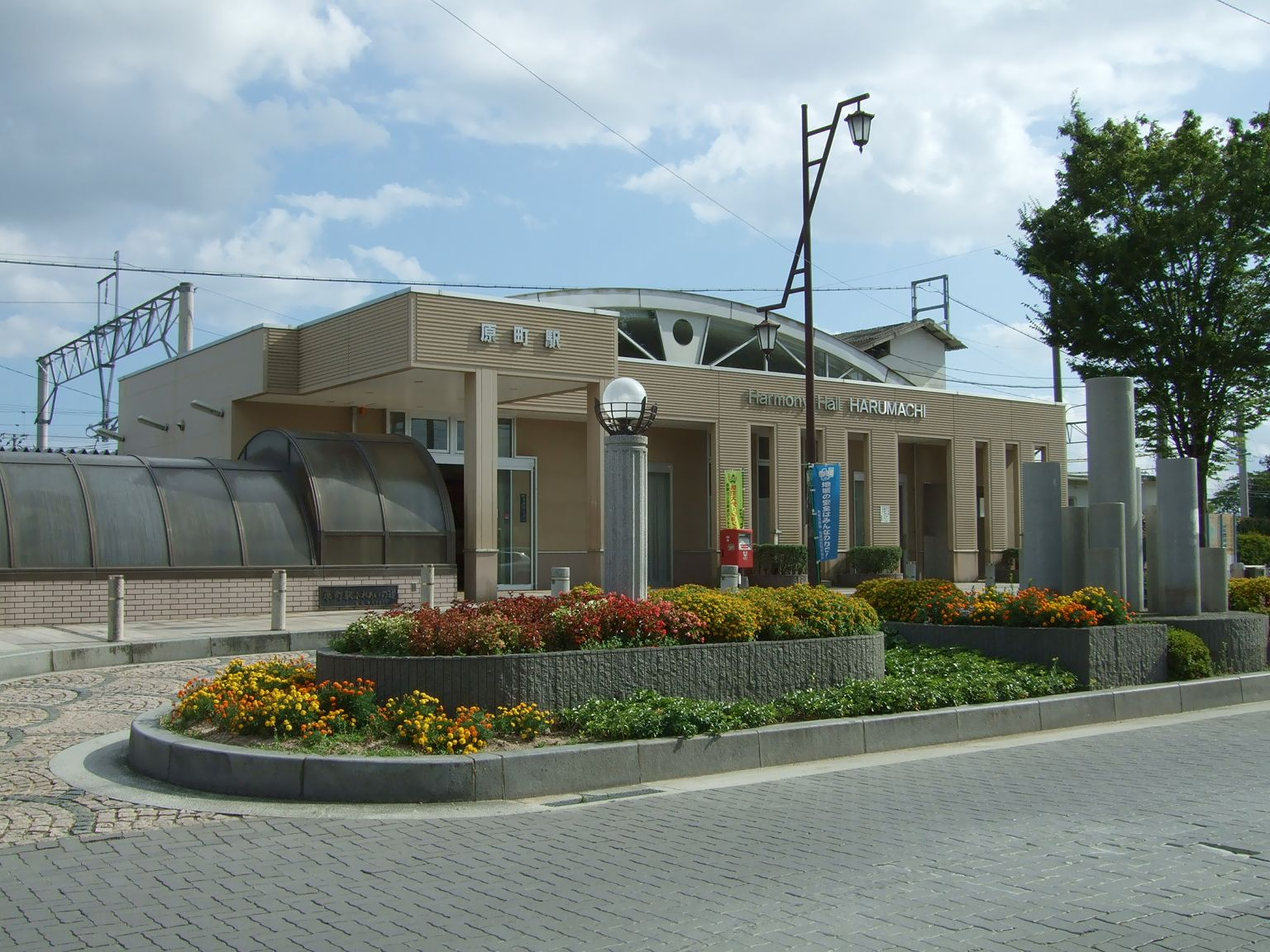 Harumachi Station, Sasaguri Line, Kyushu Railway Company.